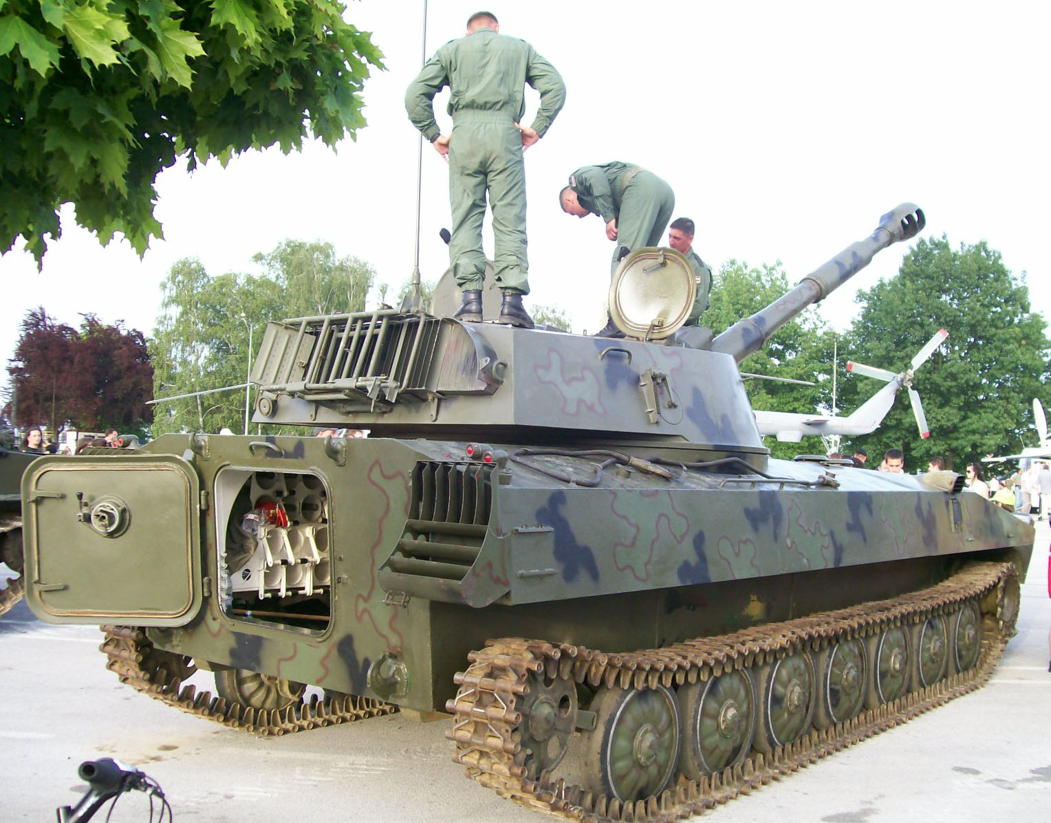 Self-propelled howitzer 2S1 Gvozdika